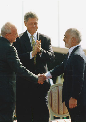 Bill Clinton with Prime Minister Yitzhak Rabin of Israel and King Hussein I of Jordan at the peace treaty signing ceremony at the Wadi Araba border crossing.